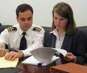 From left, Navy Lt. Cmdr William Kuebler, a judge advocate general, or JAG officer and Rebecca Snyder, his civilian co-counsel are the Pentagon appointed defense attorneys for Omar Khadr.